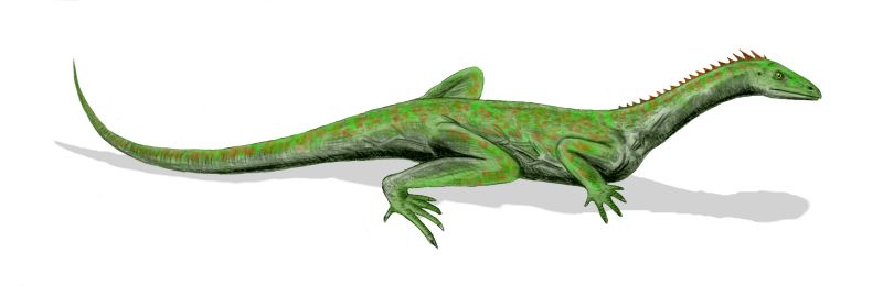 Macrocnemus basanii, a protorosaur from the Middle Triassic of Europe, pencil drawing.